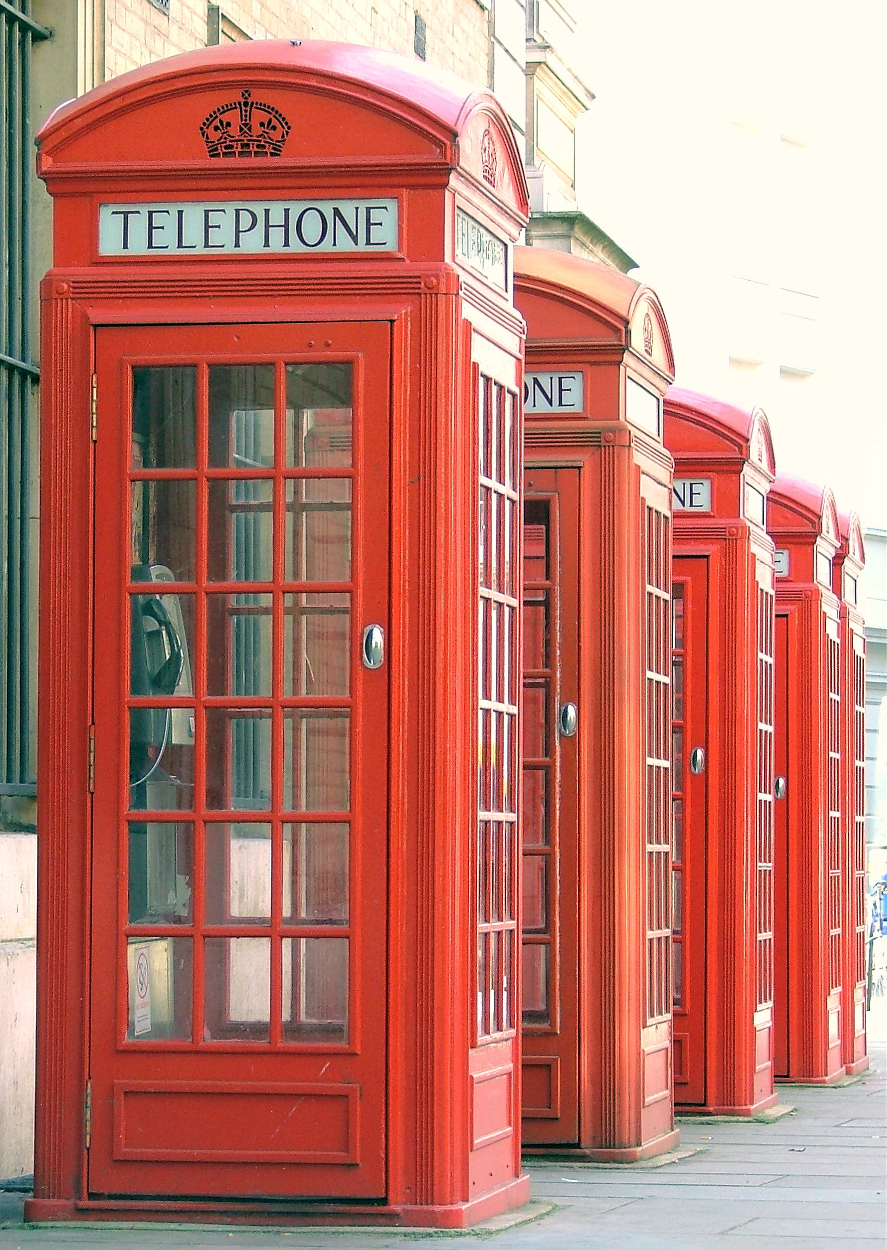 Five K2 telephone kiosks, Broad Court, London WC2